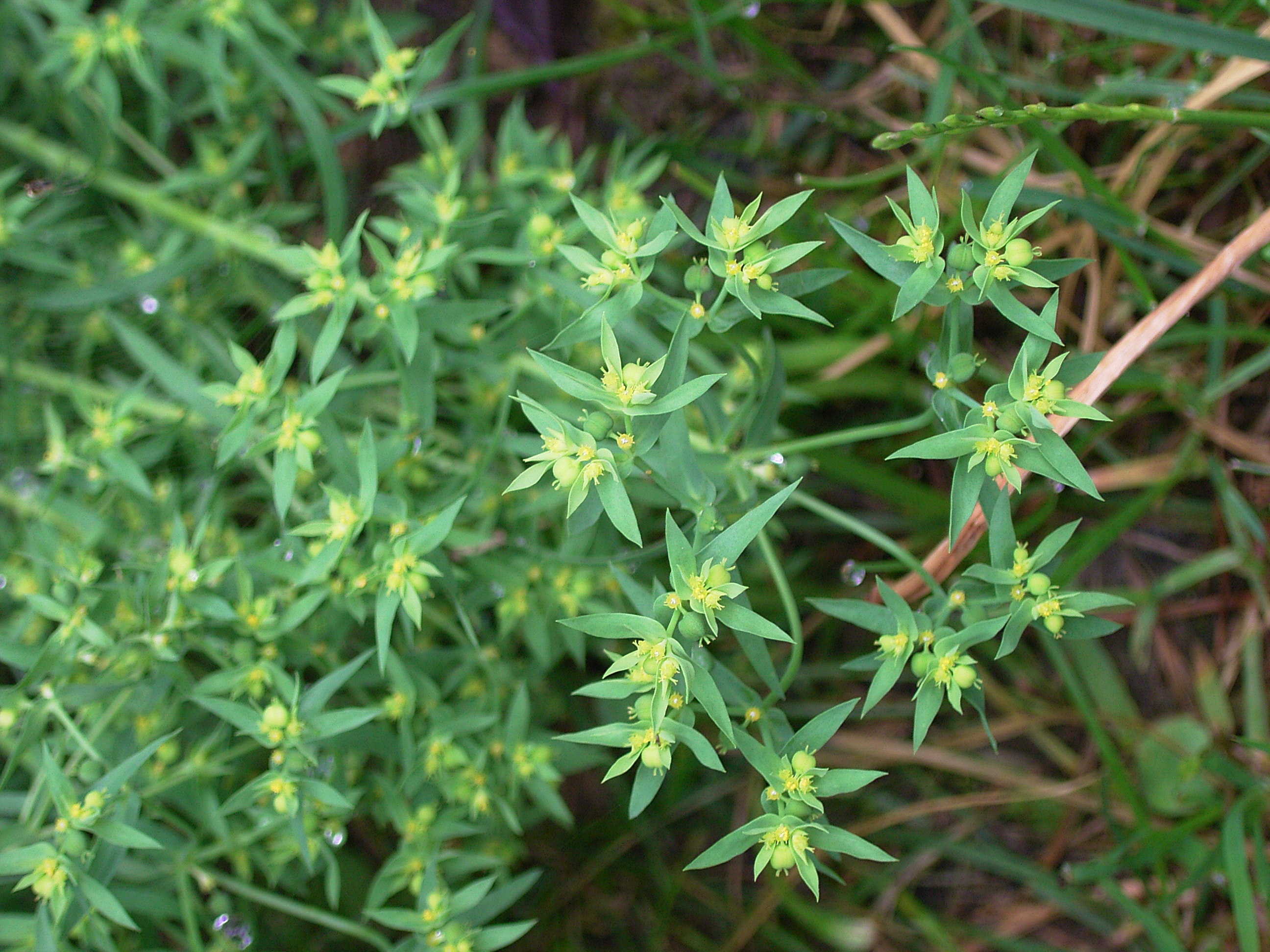 Euphorbia exigua in our garden